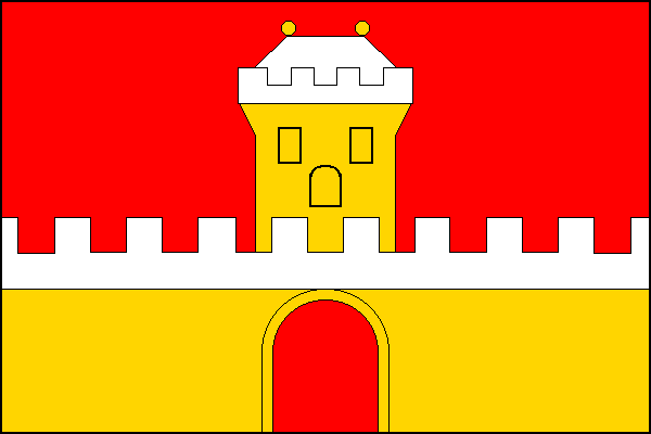 Municipal flag of Uherský Ostroh town, Uherské Hradiště District, Czech Republic.